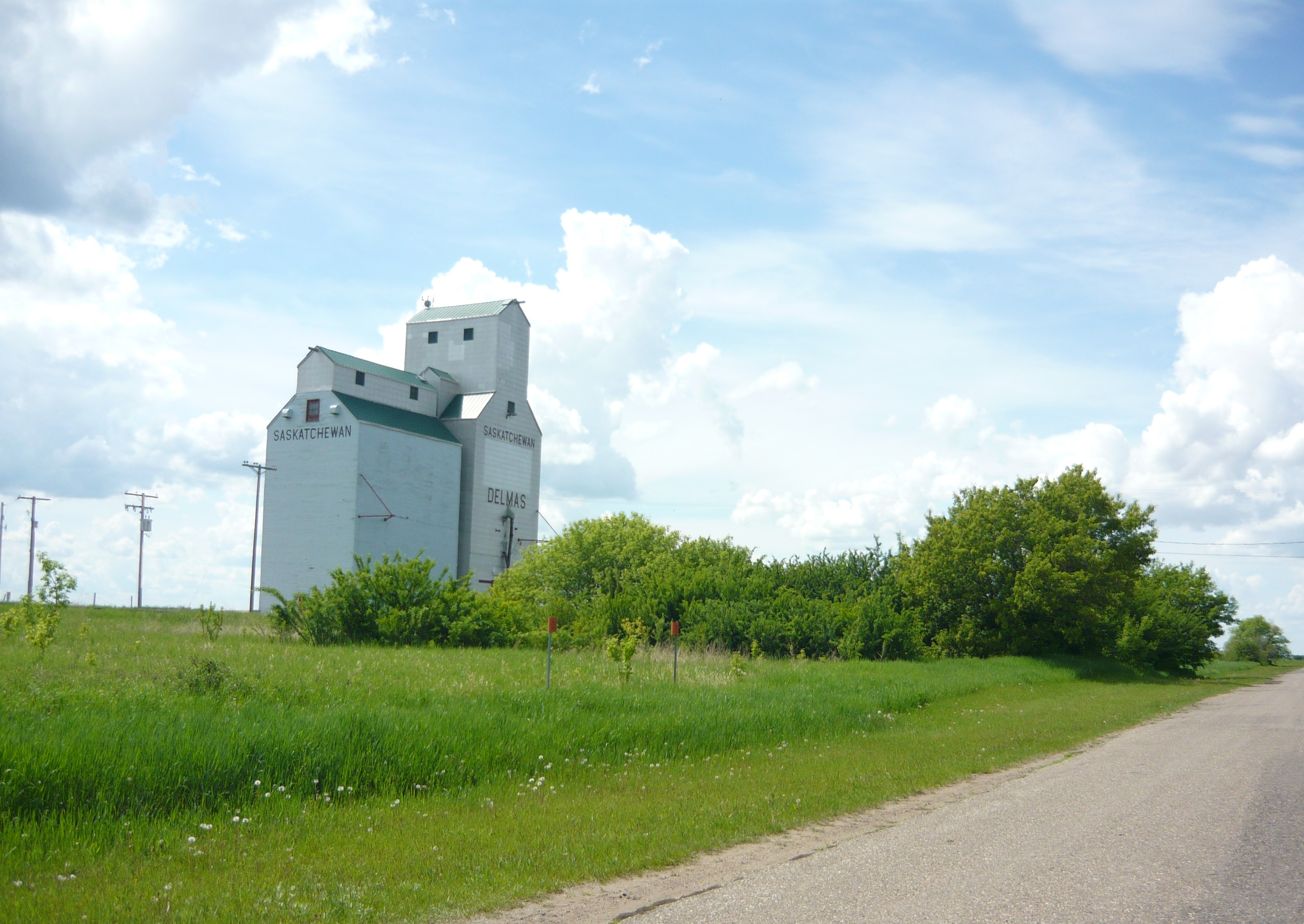 Grain elevator at intersections of Railway Street and Avenue A, Delmas, Saskatchewan, Canada.